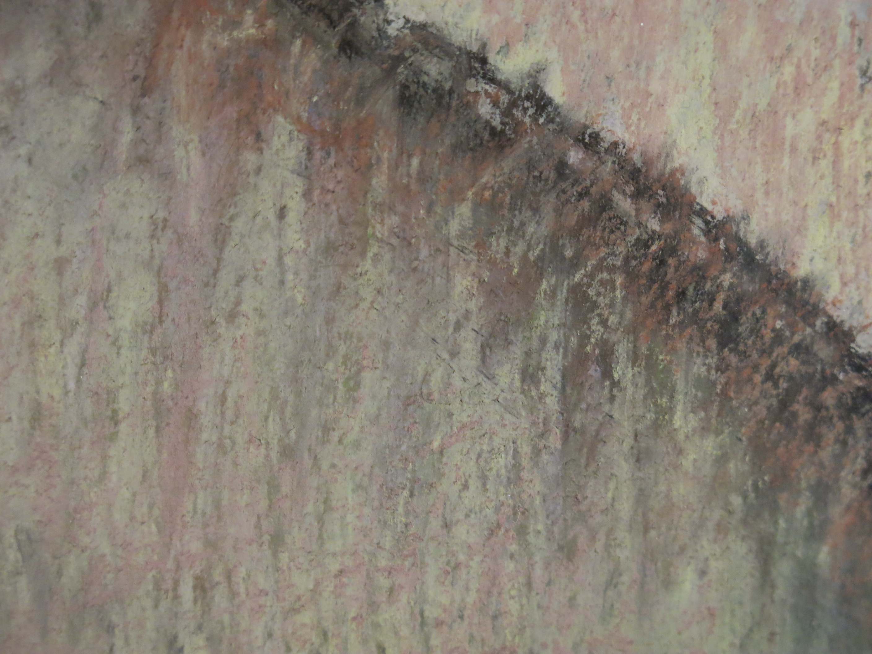 Detail of the painting Leaving the Bath by Edgar Degas showing the impressionist work. (Louvre museum, Paris, France).